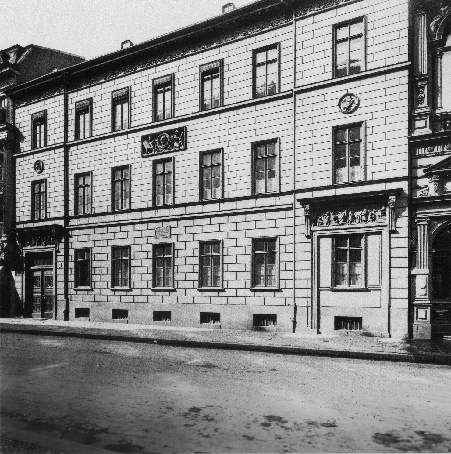 The Schadow House in Schadowstrasse No 10-11 in Berlin (Germany).